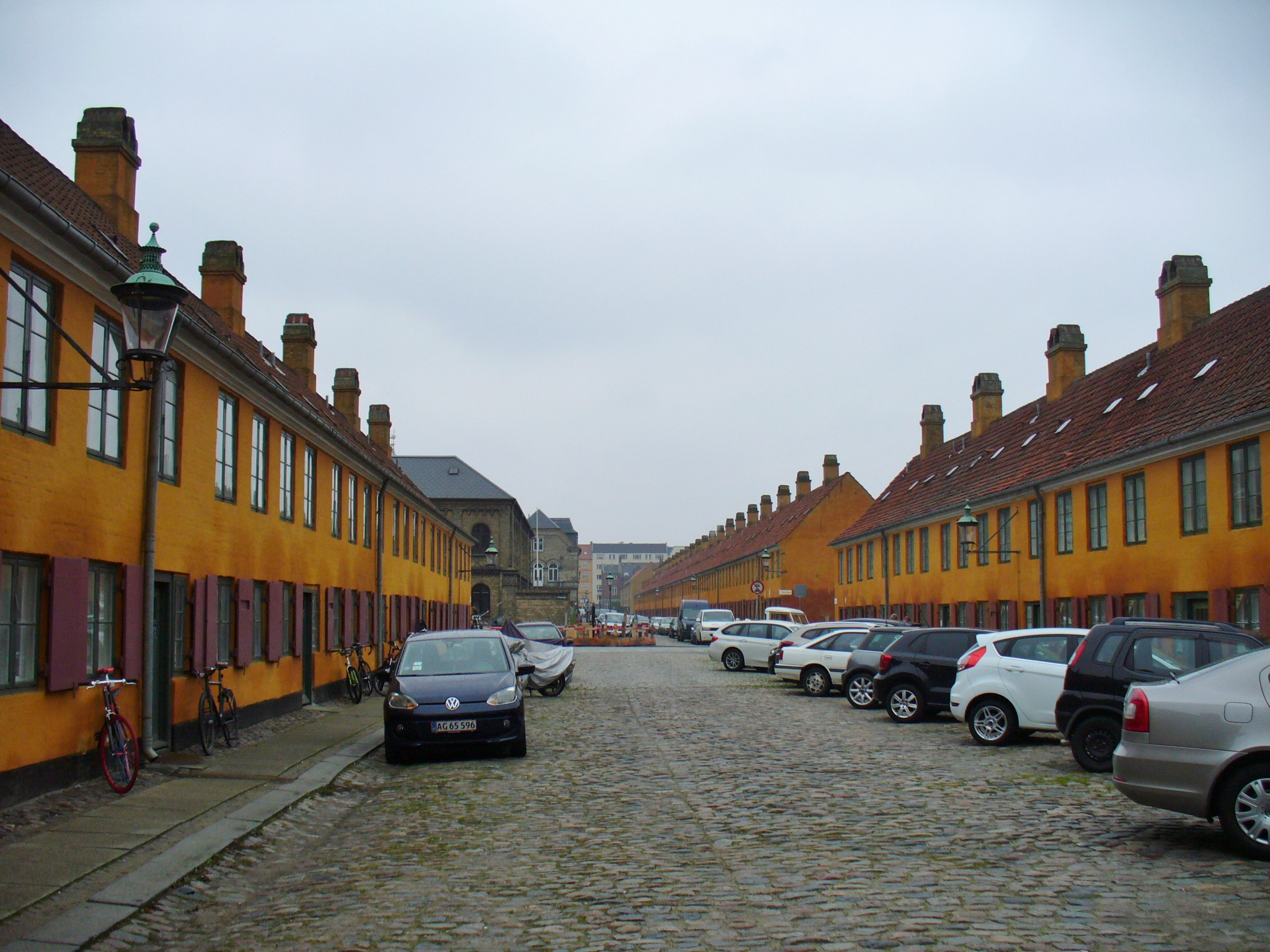 The street Tigergade in the area Nyboder in Copenhagen.